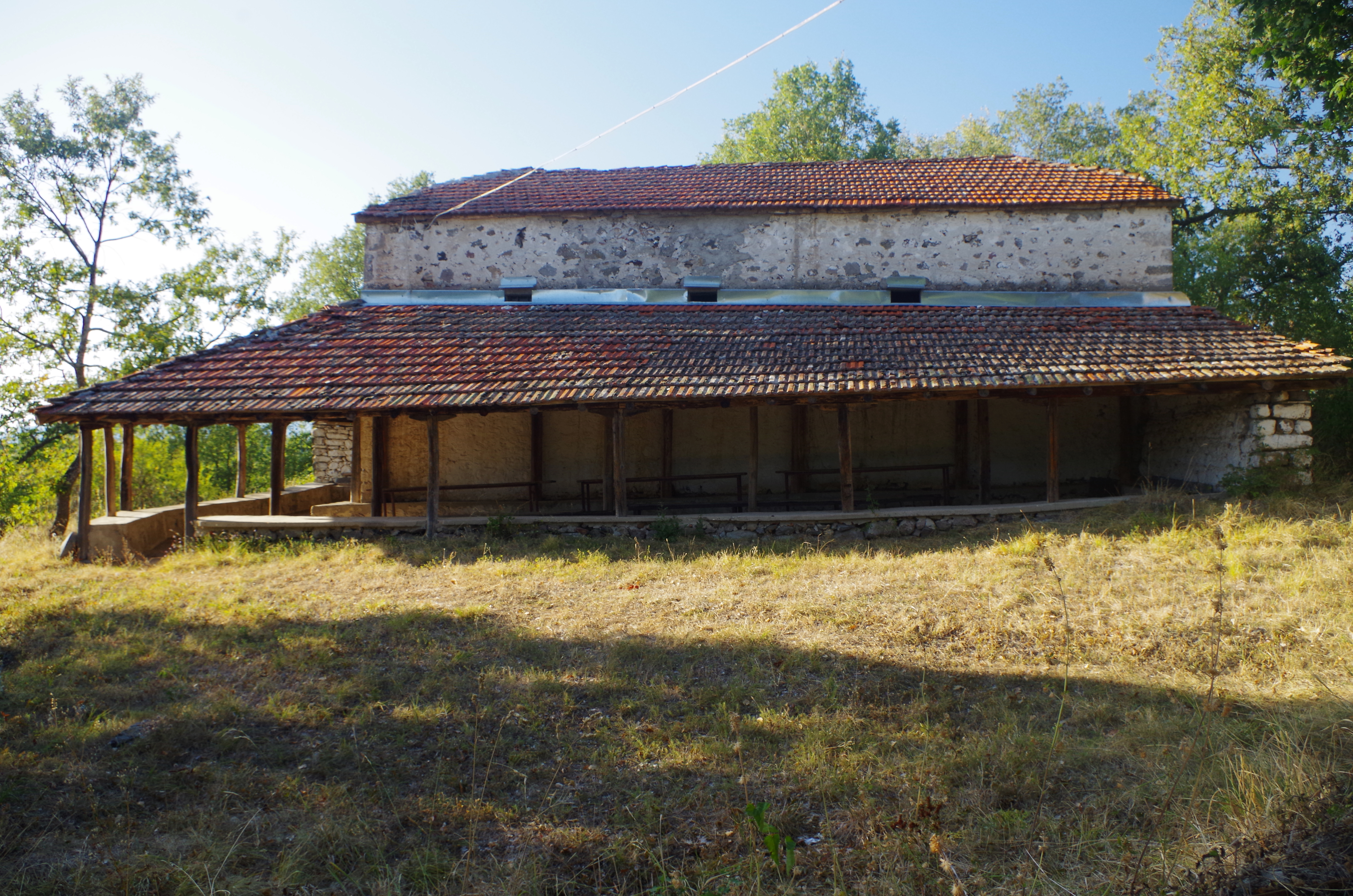 Church of the Theotokos in the village of Bojančište